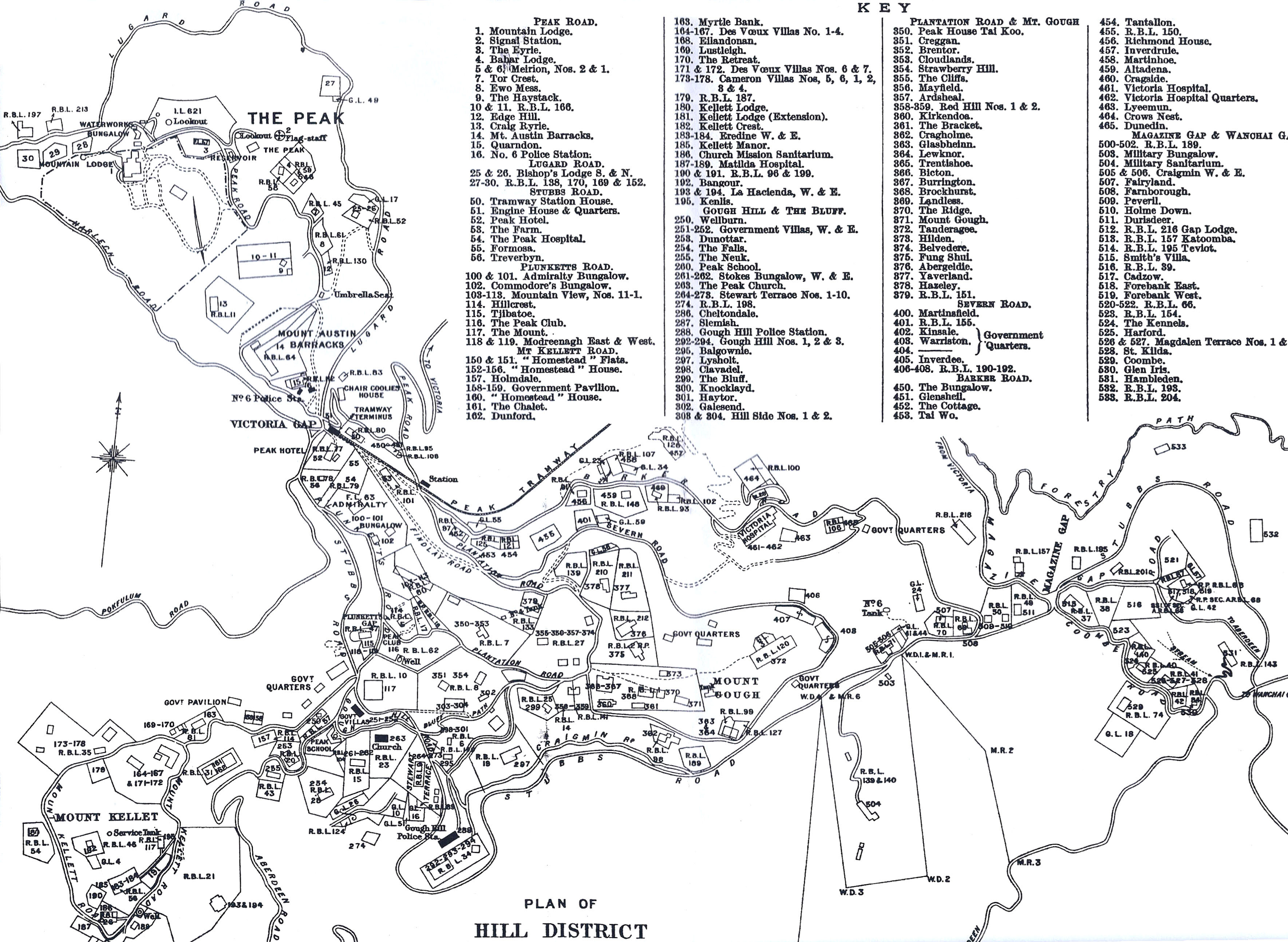 Map of Victoria Peak, showing named residences